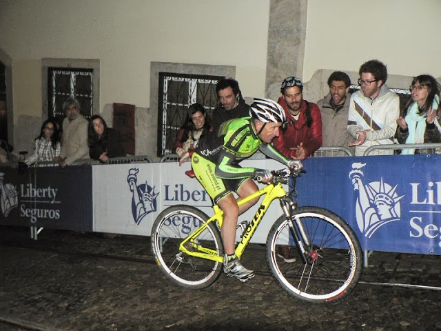 Marco Chagas